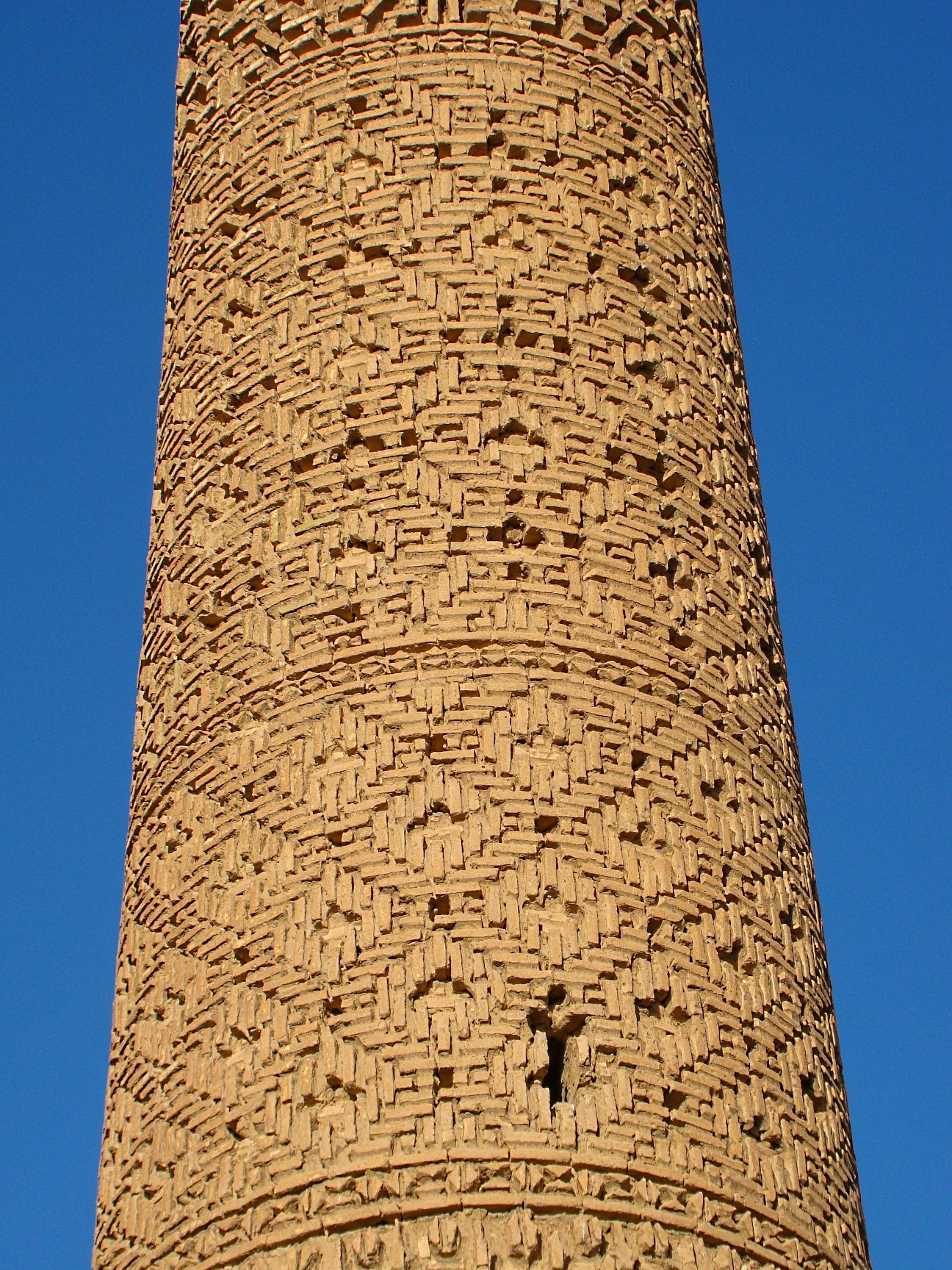 Tarikhaneh mosque in Damghan, the probably oldest mosq in Iran.